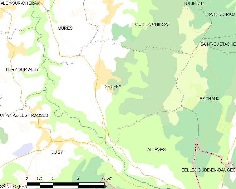 Map of French municipality Gruffy